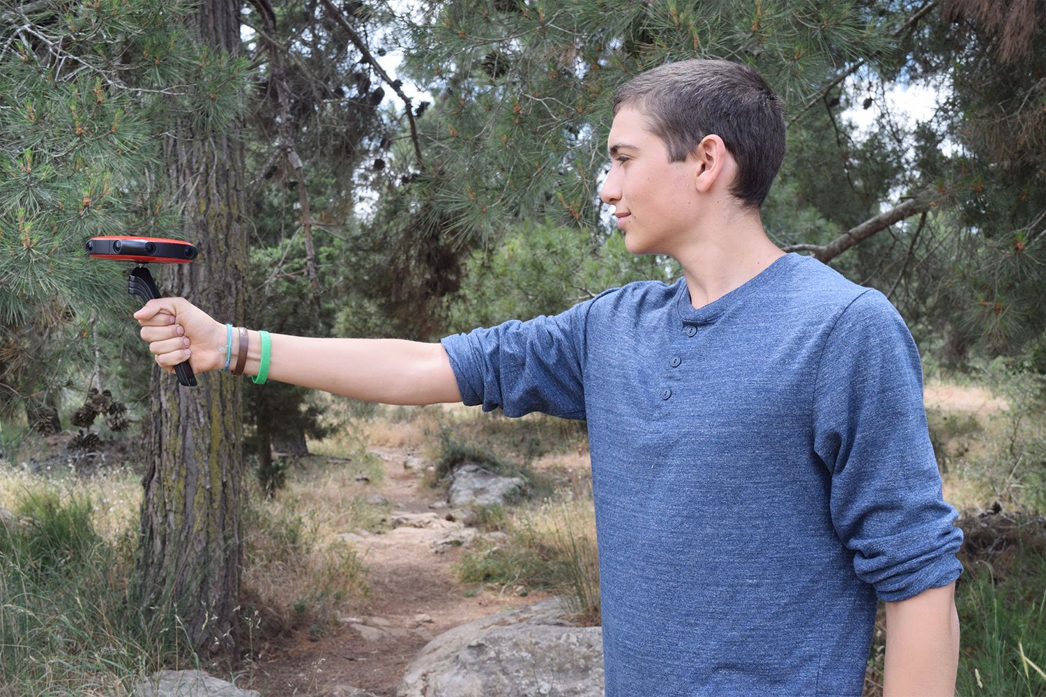 vuze 3d 360 virtual reality camera